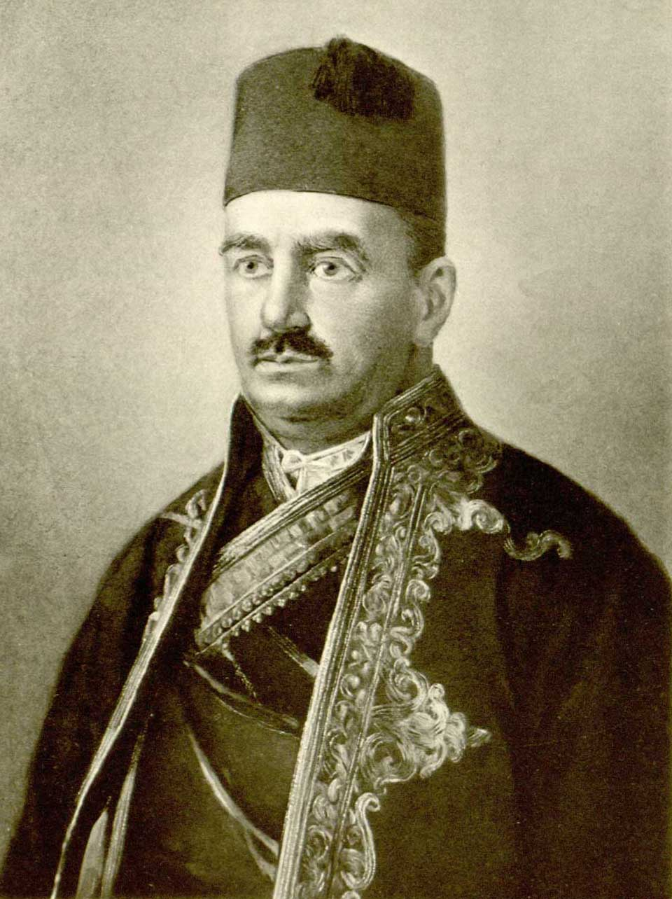 Illustration of Nikola Lunjevica, published in Знаменити Срби 19. века (1901).